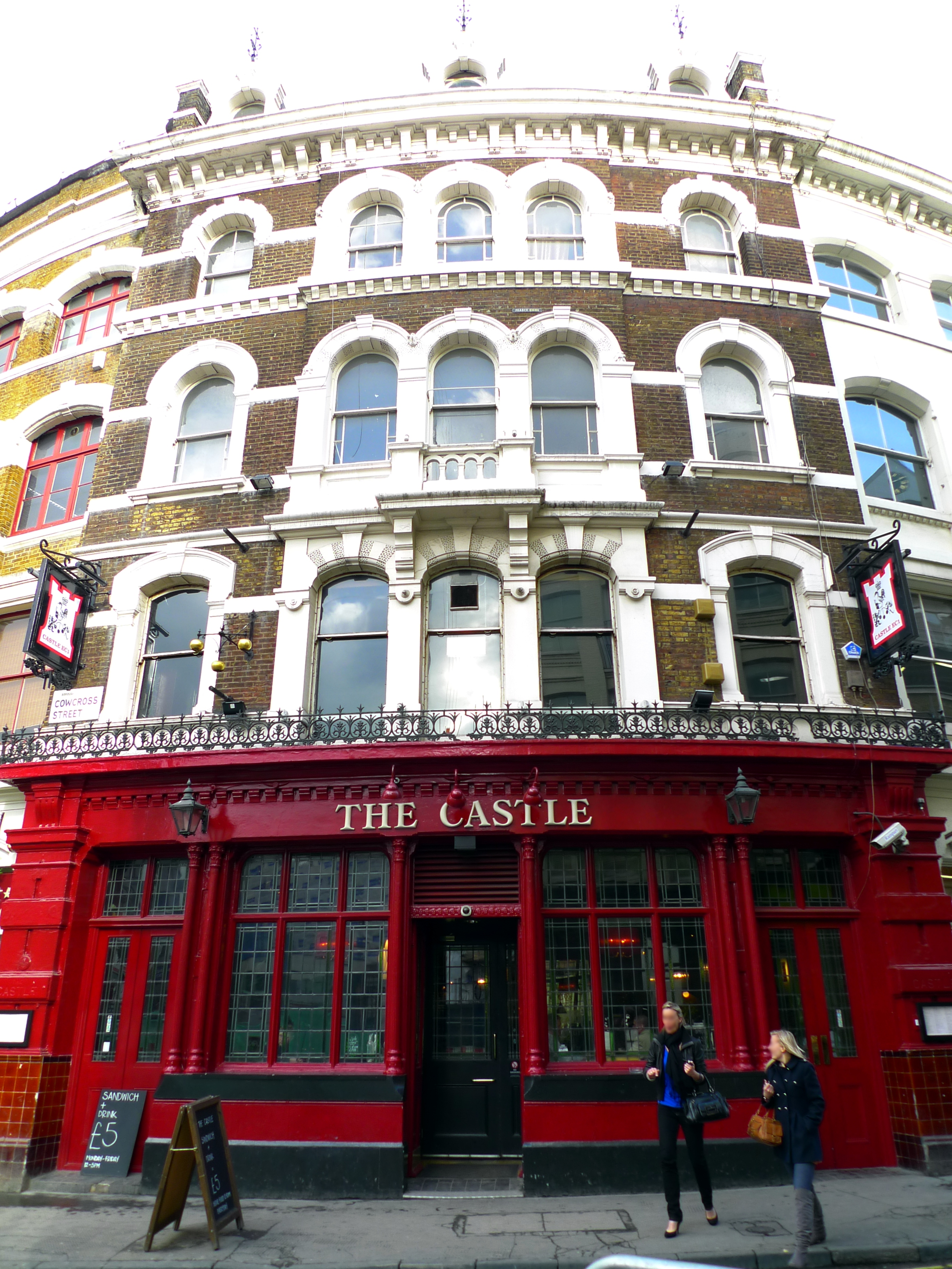 A perfectly good pub just by Farringdon station. (Photo of it prior to repainting.) Address: 34-35 Cowcross Street. Owner: Mitchells and Butlers [Metro Professionals] (website). Links: London Pubology